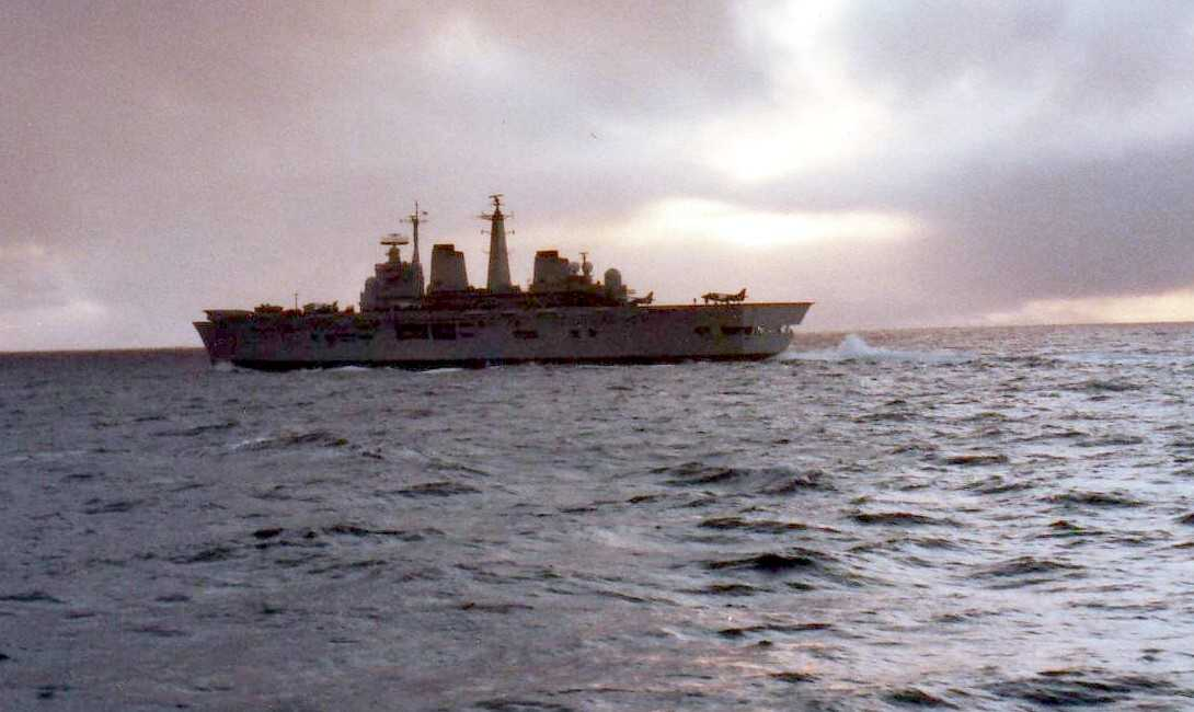 Taken in June within the Total Exclusion Zone 1982 (Long shot and rather dark)